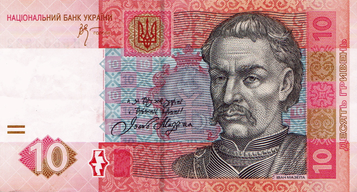 The Banknote of 10 Hryvnia Denomination of 2004 issue (2006). Front